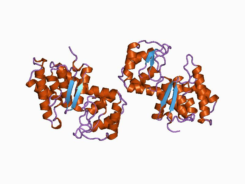 Cartoon representation of the molecular structure of protein registered with 1chk code.